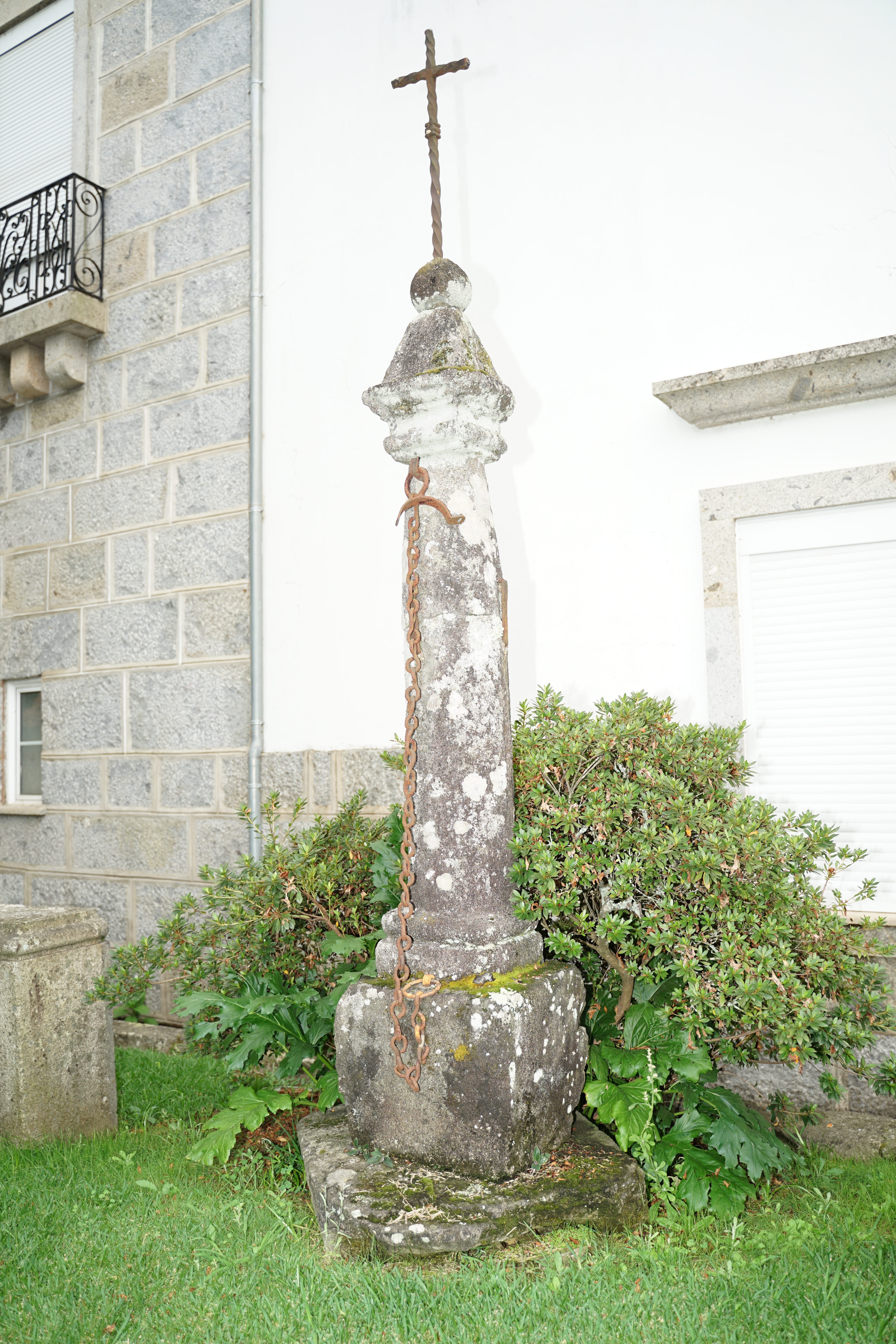 Pilloriy in Soutelo, Vila Verde, Portugal.